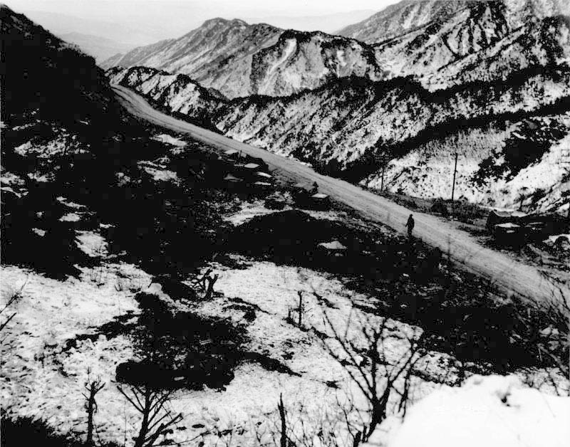 Their job to blast Communist-held positions in Defilade, troops of Heavy Mortar Co., 32nd Regiment, 7th Division, move into position in a pass between Punggi and Tanyang, Korea.